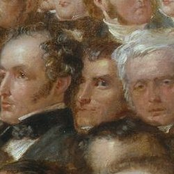 Richard Peek was a tea merchant in Liverpool and Londo - born and died in Devon. In the picture ... Around him are other delegates including John Sturge